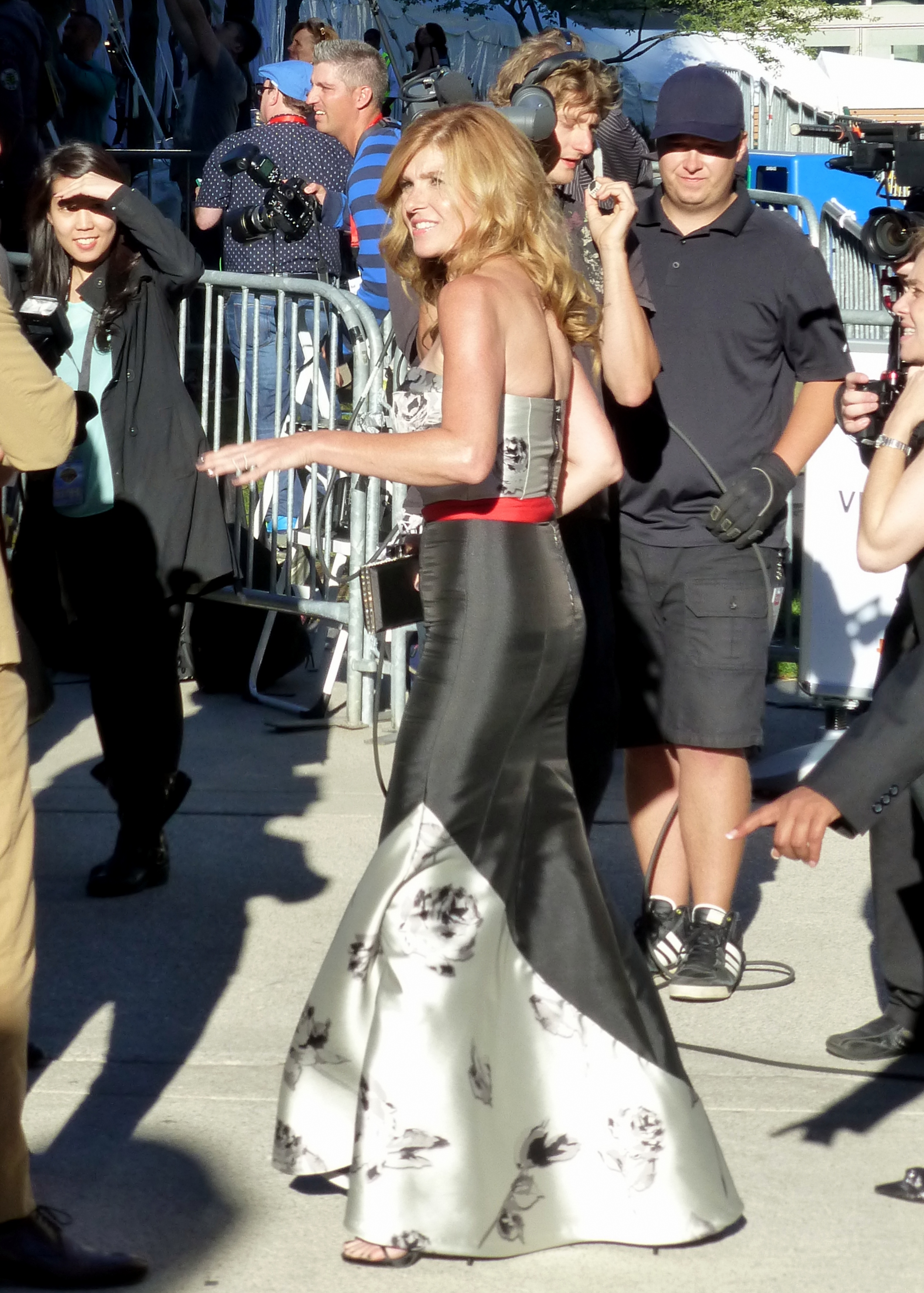 Connie Britton at the premiere of This Is Where I Leave You, 2014 Toronto Film Festival